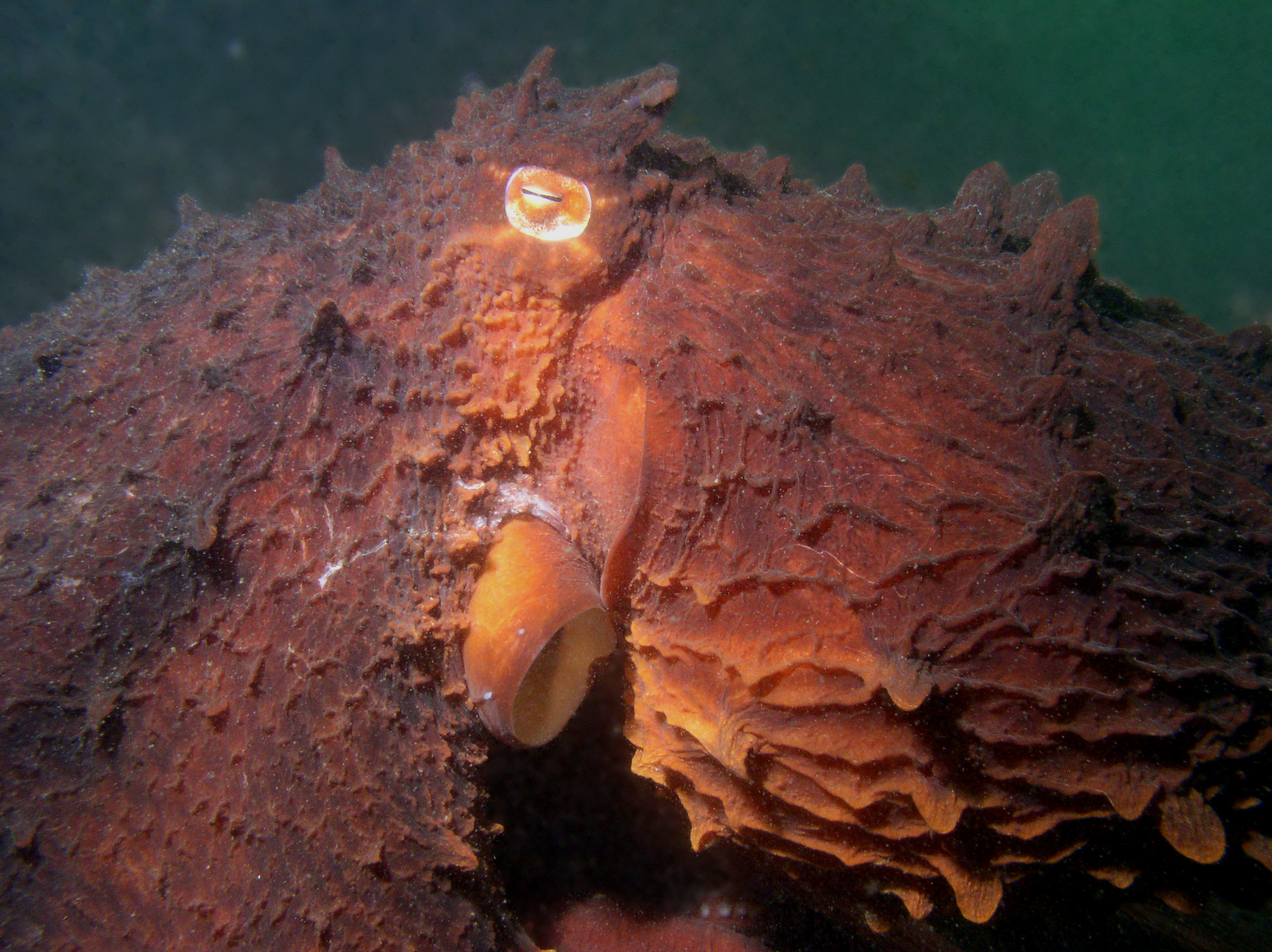 Close-up of Enteroctopus dofleini showing longitudinal folds on the body and paddle-like papilla.